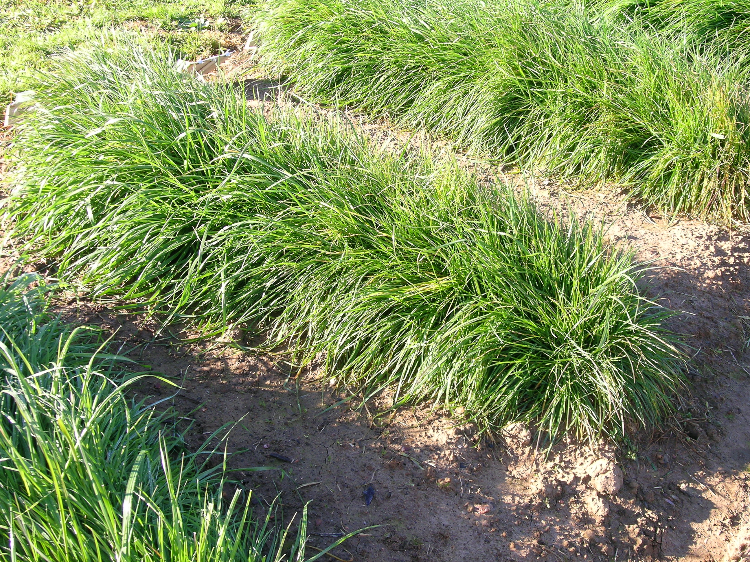 Introduced, cool-season, annual or short-lived perennial, tufted, leafy grass 35-80 cm tall. A native of Europe, it is commonly sown in lawns and pastures in the south and is often naturalised along roadsides. Not well suited to the north coast’s hot summers. Best suited to moist, low aluminium, highly-fertile soils.